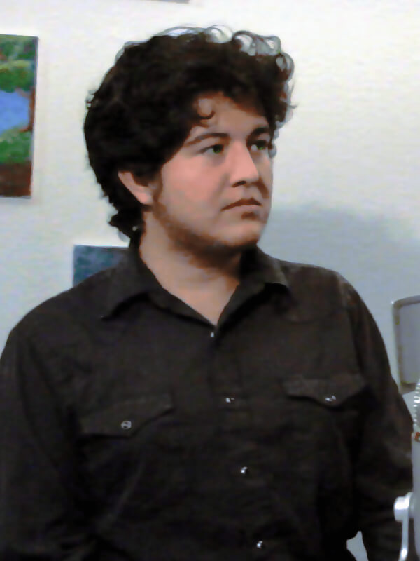 Crop and color correction of this image